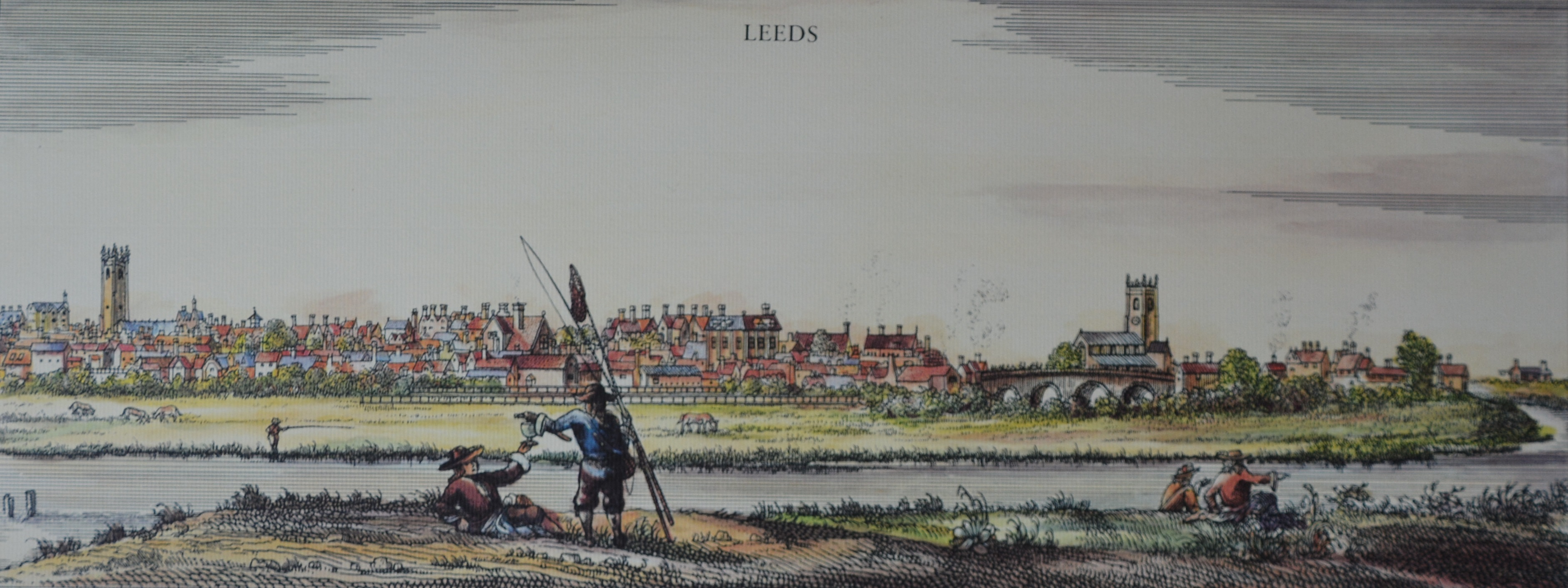 Leeds 1715 by anonymous artist